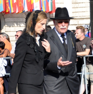 Margrave Max of Baden and Princess Sophie of Isenburg (now of Prussia) at the funeral of Otto von Habsburg